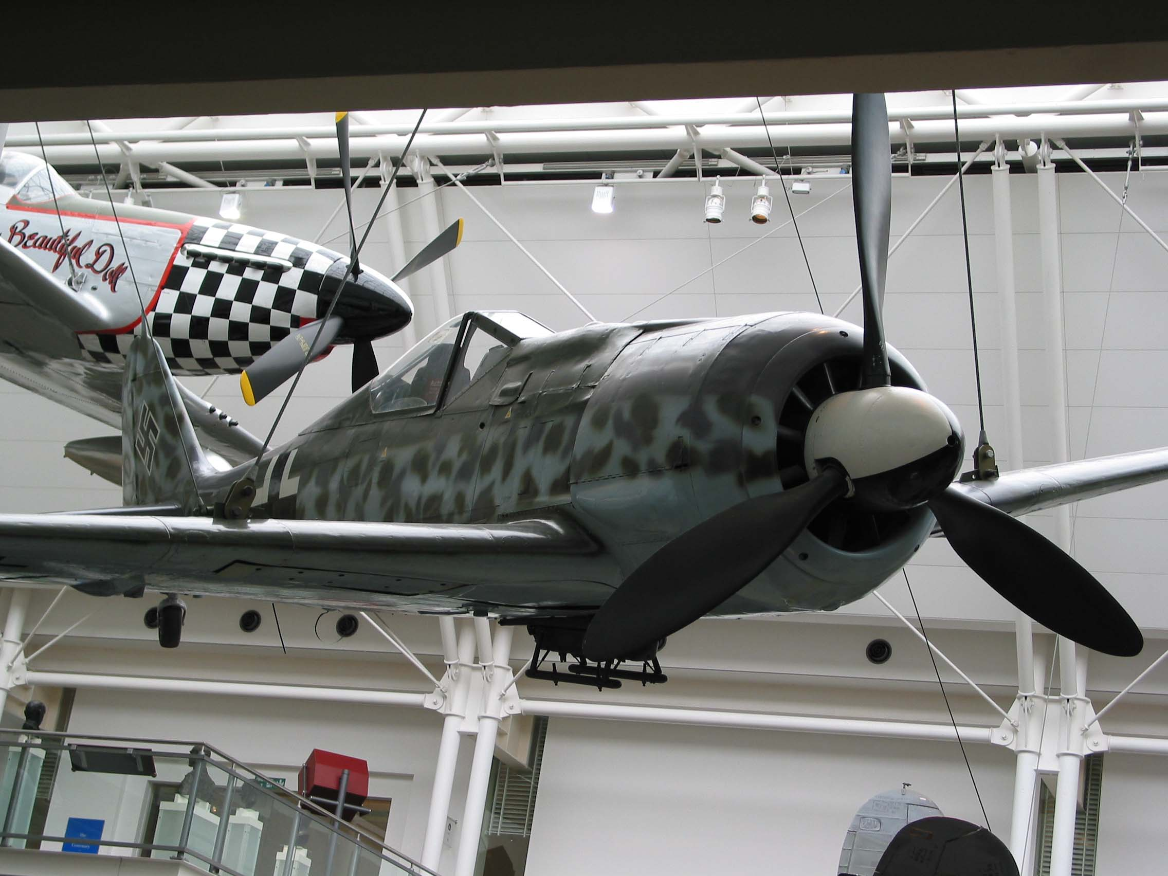 A german Fw 190 A-8 (W-Nr:733682) fighter plane at the Imperial War Museum. Note the faired-over gun ports and the belly-mounted ETC-501 bomb rack.